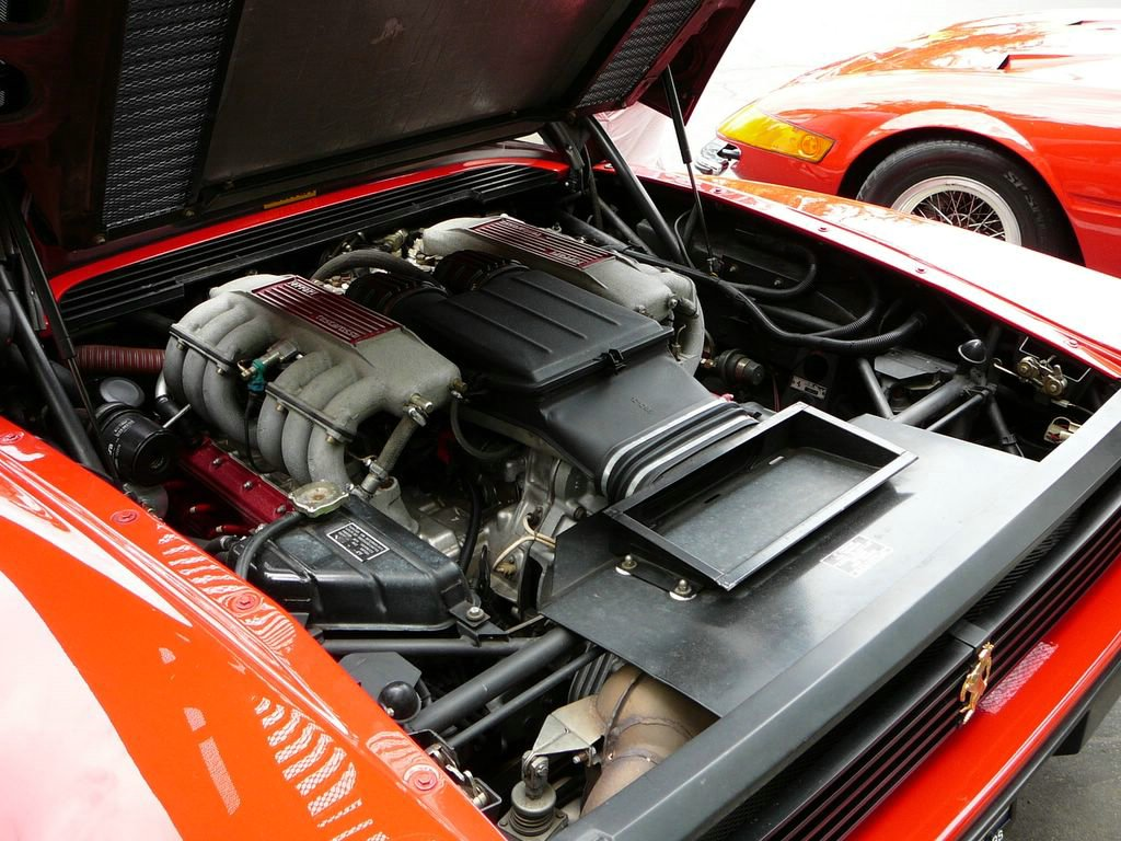 A Testarossa engine with red cam covers. Flat-12 Colombo in a 1991 Testarossa.